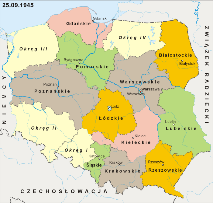 Administrative division of Poland as of Seprember 25, 1945